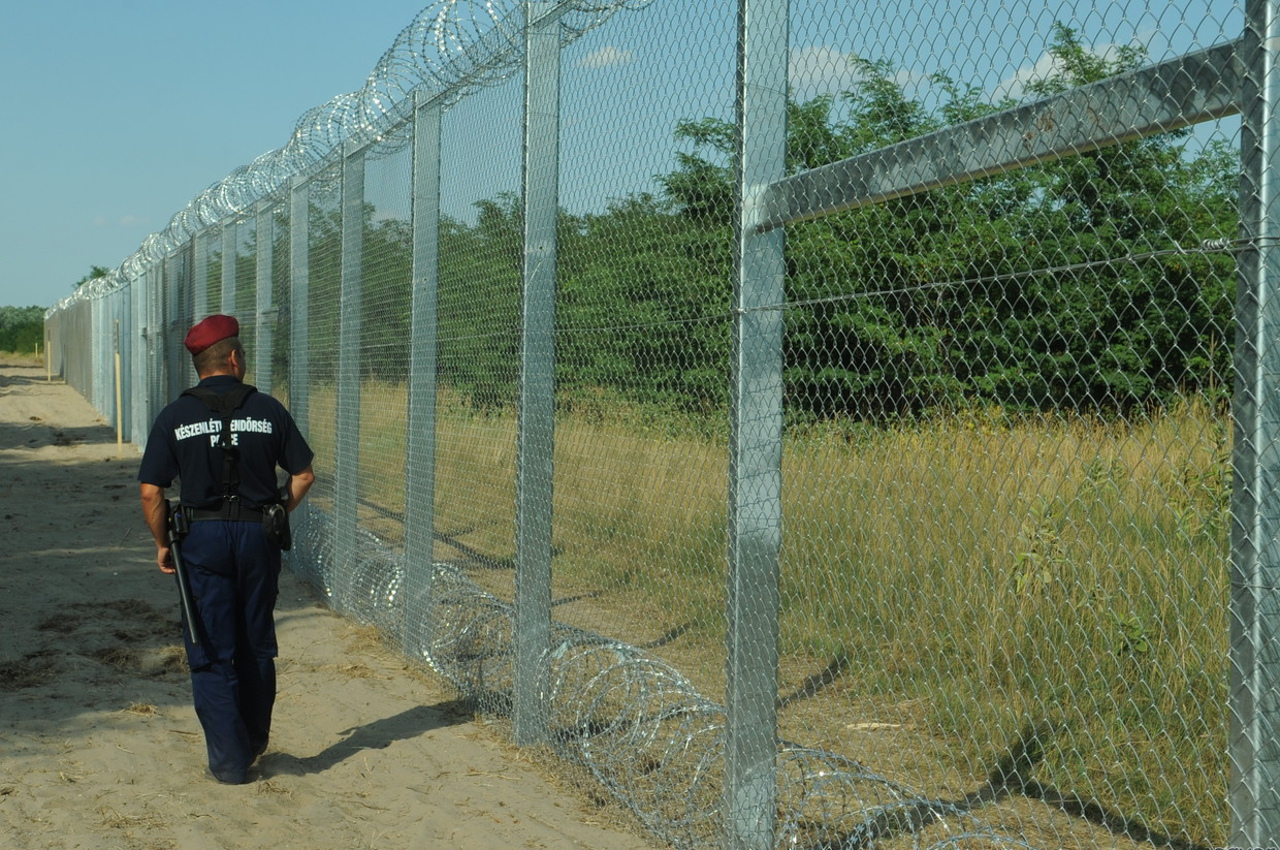 Barrier in Hungarian-Serbian border